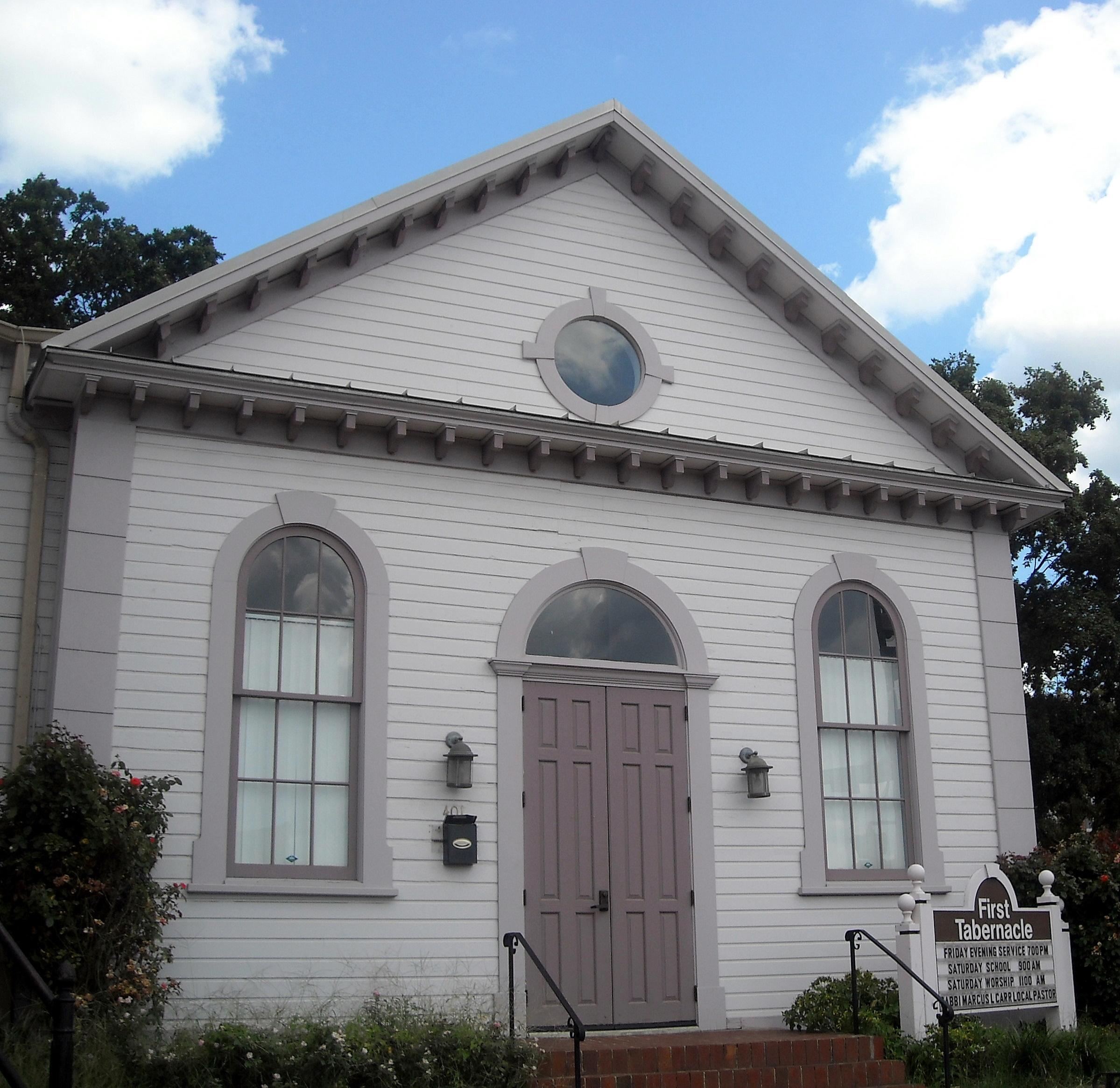 Fletcher Chapel, now known as First Tabernacle or First Tabernacle Beth El, located at 401 New York Avenue, N.W., in the Mount Vernon Square neighborhood of Washington, D.C. The building was constructed in 1854 by members of McKendree Methodist Church (the "mother church" of Fletcher Chapel), making it one of the oldest surviving houses of worship in Washington, D.C. It was one of the first buildings used by the Church of God and Saints of Christ, a Black Hebrew Israelite congregation founded by William Saunders Crowdy. They purchased Fletcher Chapel in 1903 and renamed it First Tabernacle. On August 14, 1997, the building was listed on the National Register of Historic Places (NRHP). In addition, Fletcher Chapel is designated as a contributing property to the Mount Vernon Square Historic District, a historic district listed on the NRHP on September 3, 1999.